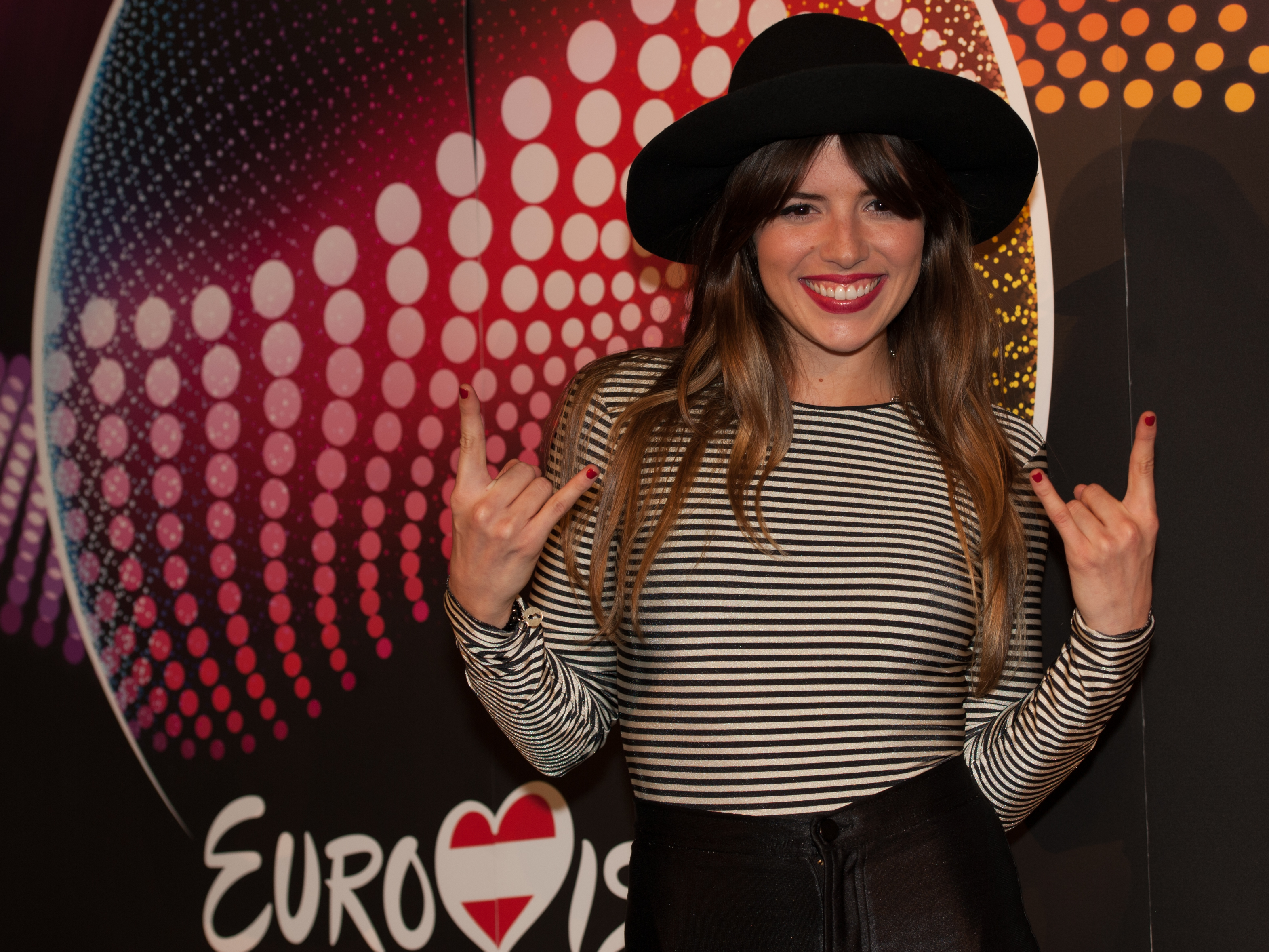 Eurovision Song Contest Vienna 2015: Leonor Andrade